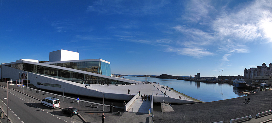 Norwegian National Opera & Ballet, as seen from the North